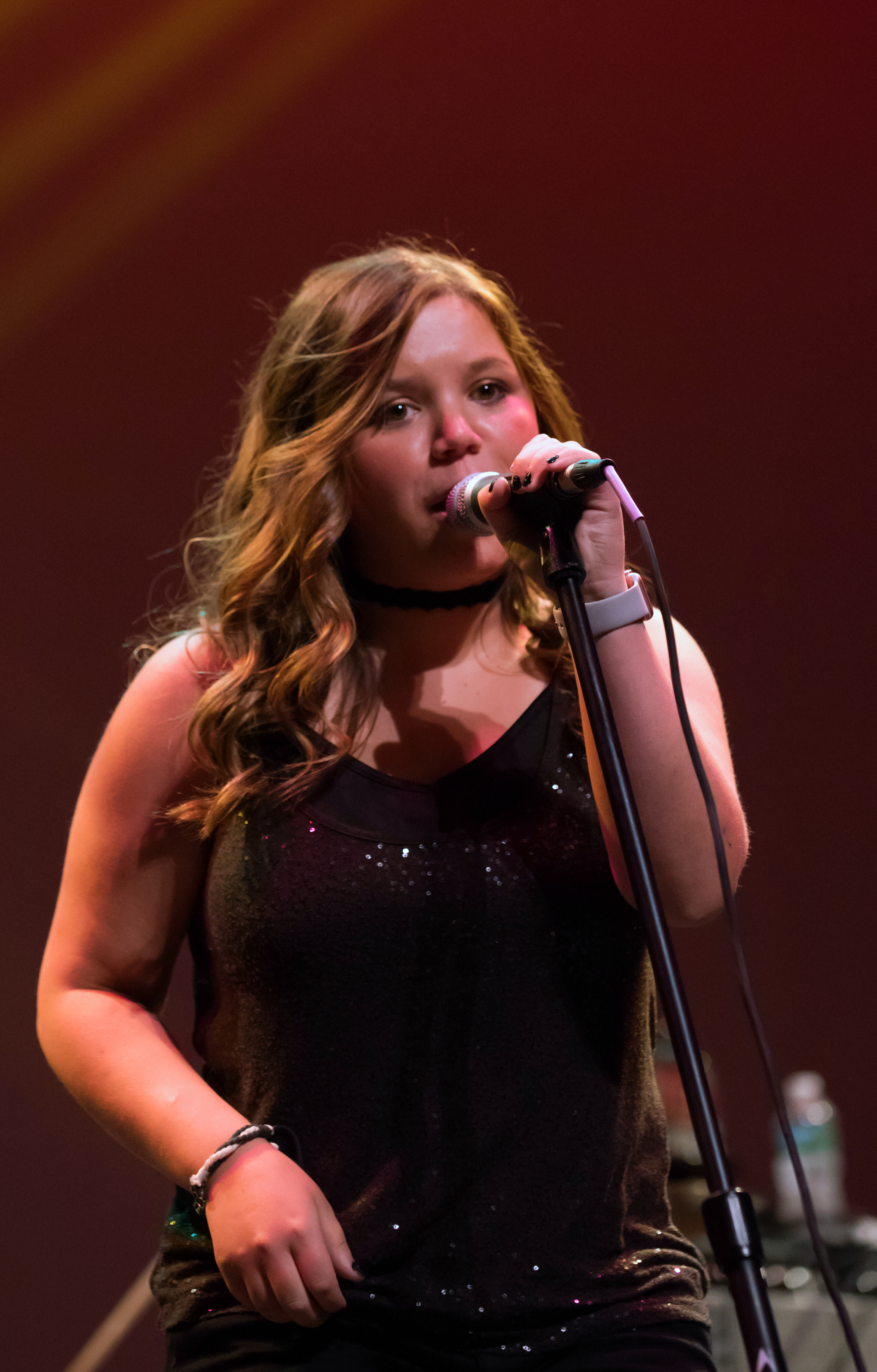 Amanda Ayala performing at the Ridgefield Playhouse